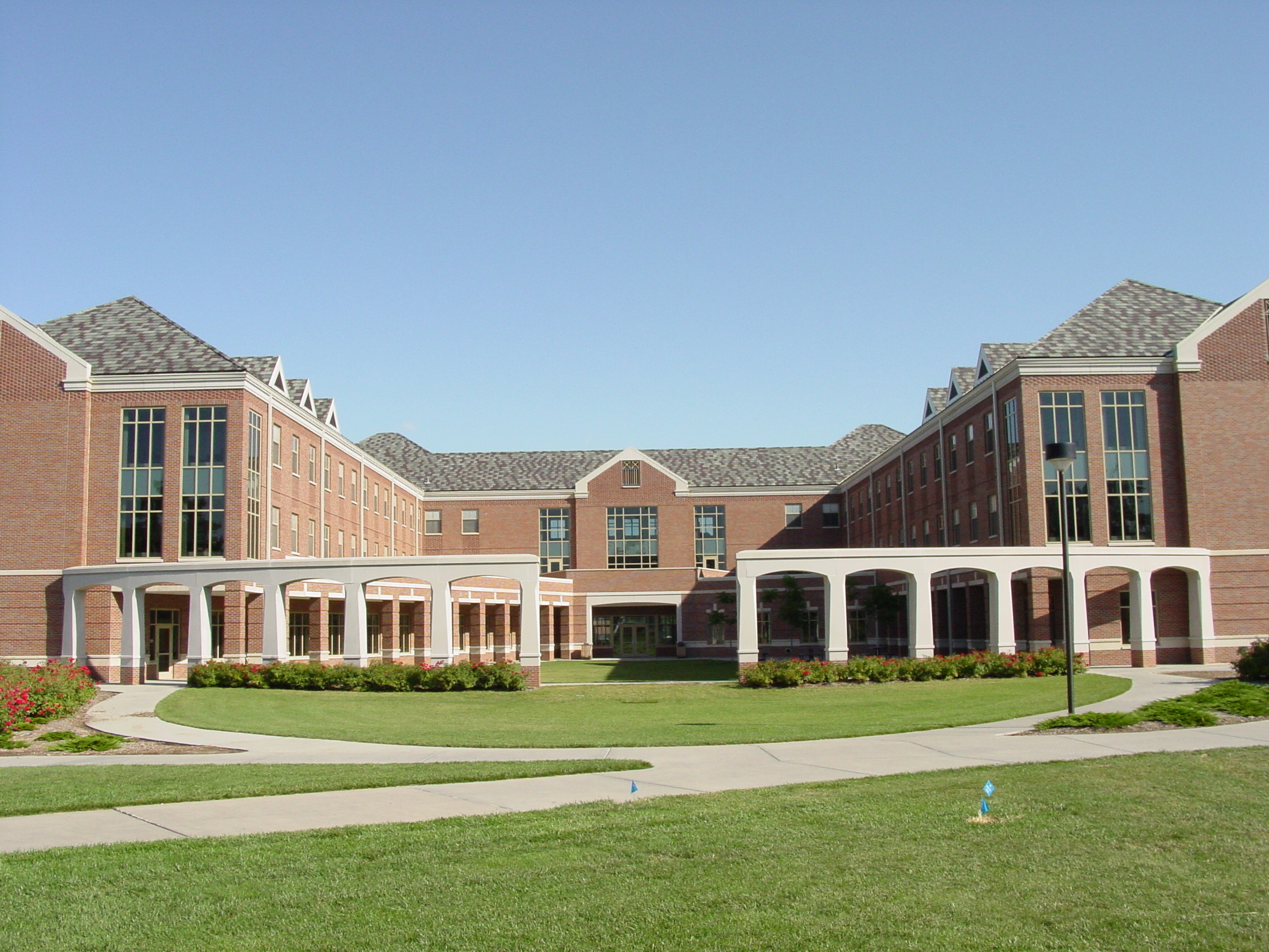 The south side of the Esther L. Kauffman Academic Residential Center at the University of Nebraska-Lincoln.